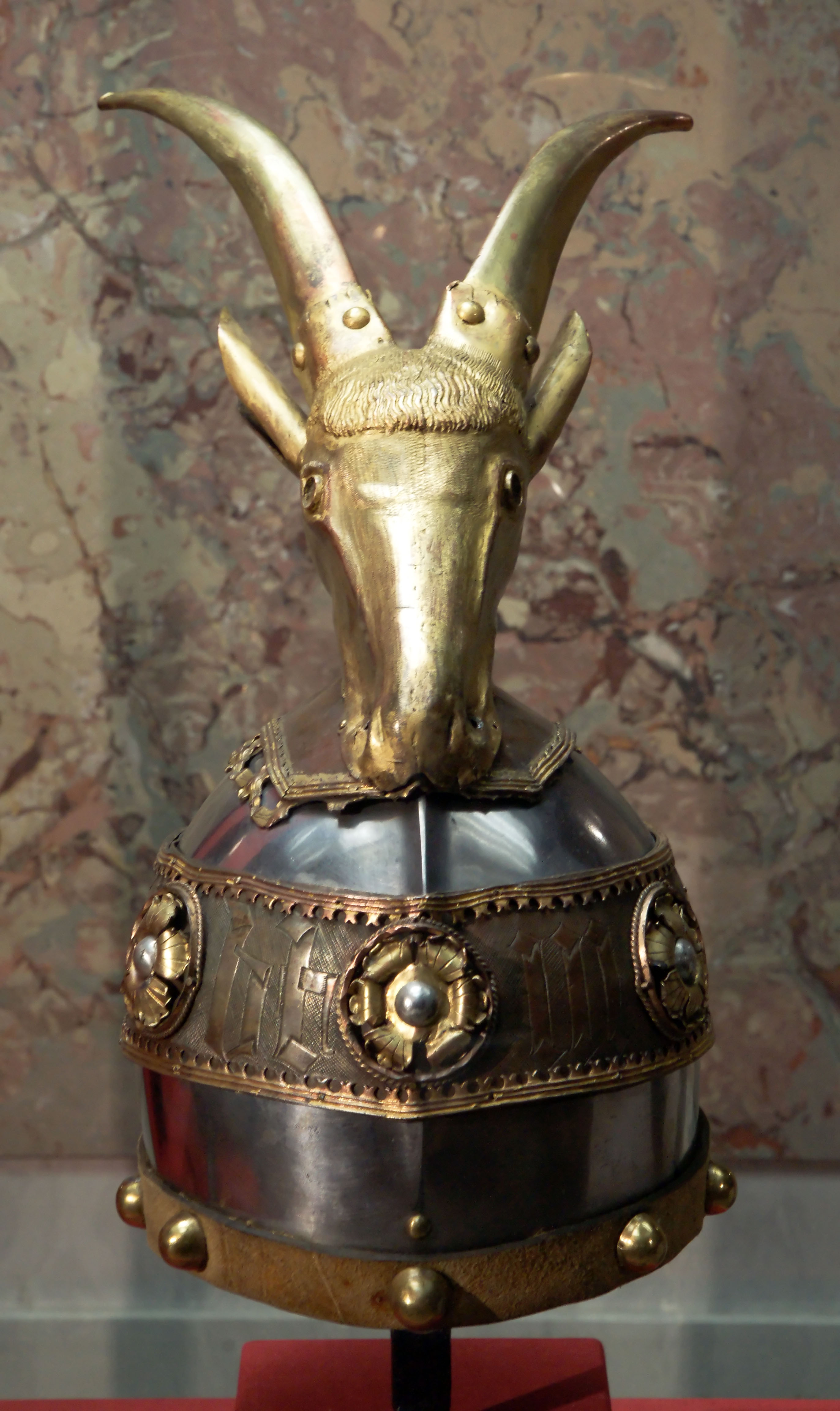 Decorative helmet of Gjergj Kastrioti Skanderbeg, c. 1460. Bought for Skanderbeg by Archduke Ferdinand II.